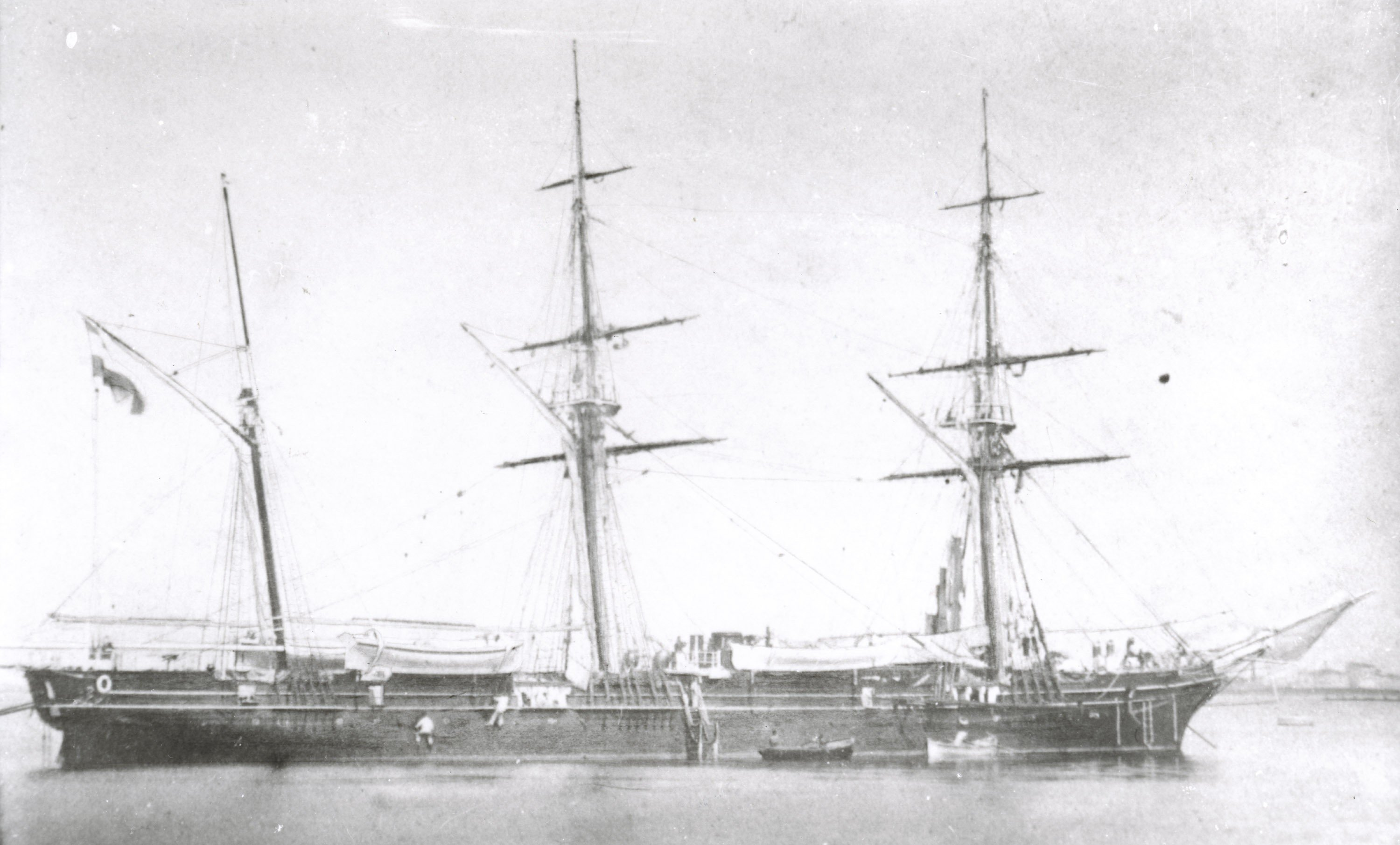 Photograph of the Dutch sloop of war Marnix of the Watergeus class